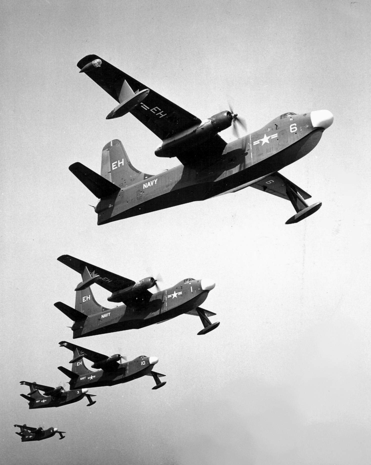 Five U.S. Navy Martin P5M-1 Marlin of Patrol Squadron 56 (VP-56) "Dragons" in flight, circa in 1954.